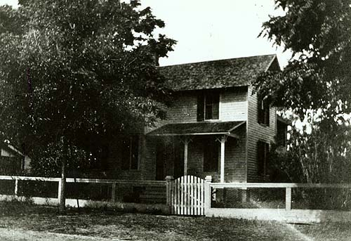 Congregational Parsonage, 1885